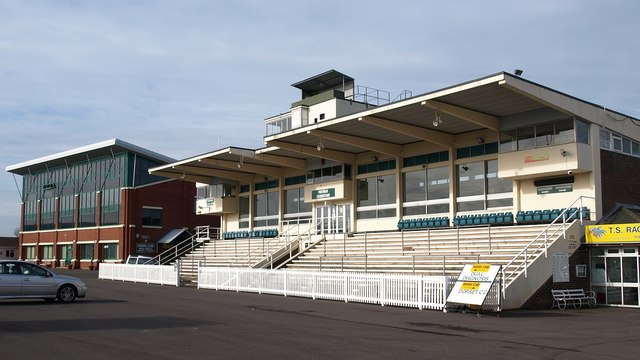 Grandstand, Taunton racecourse The building straddles a gridline. Most of the facade is in ST2421. The stand to the left is in ST2321.